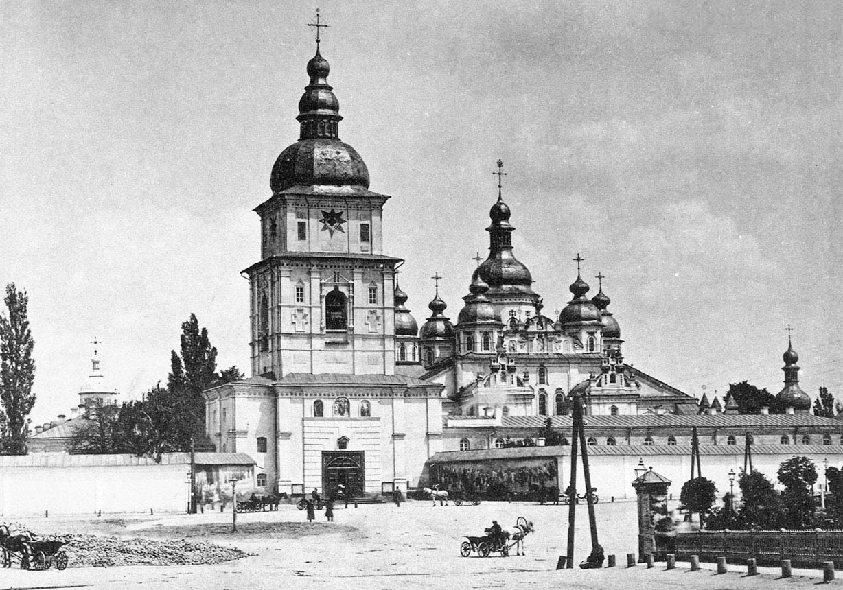 St. Michael's Golden-Domed Monastery in Kiev, Russian Empire